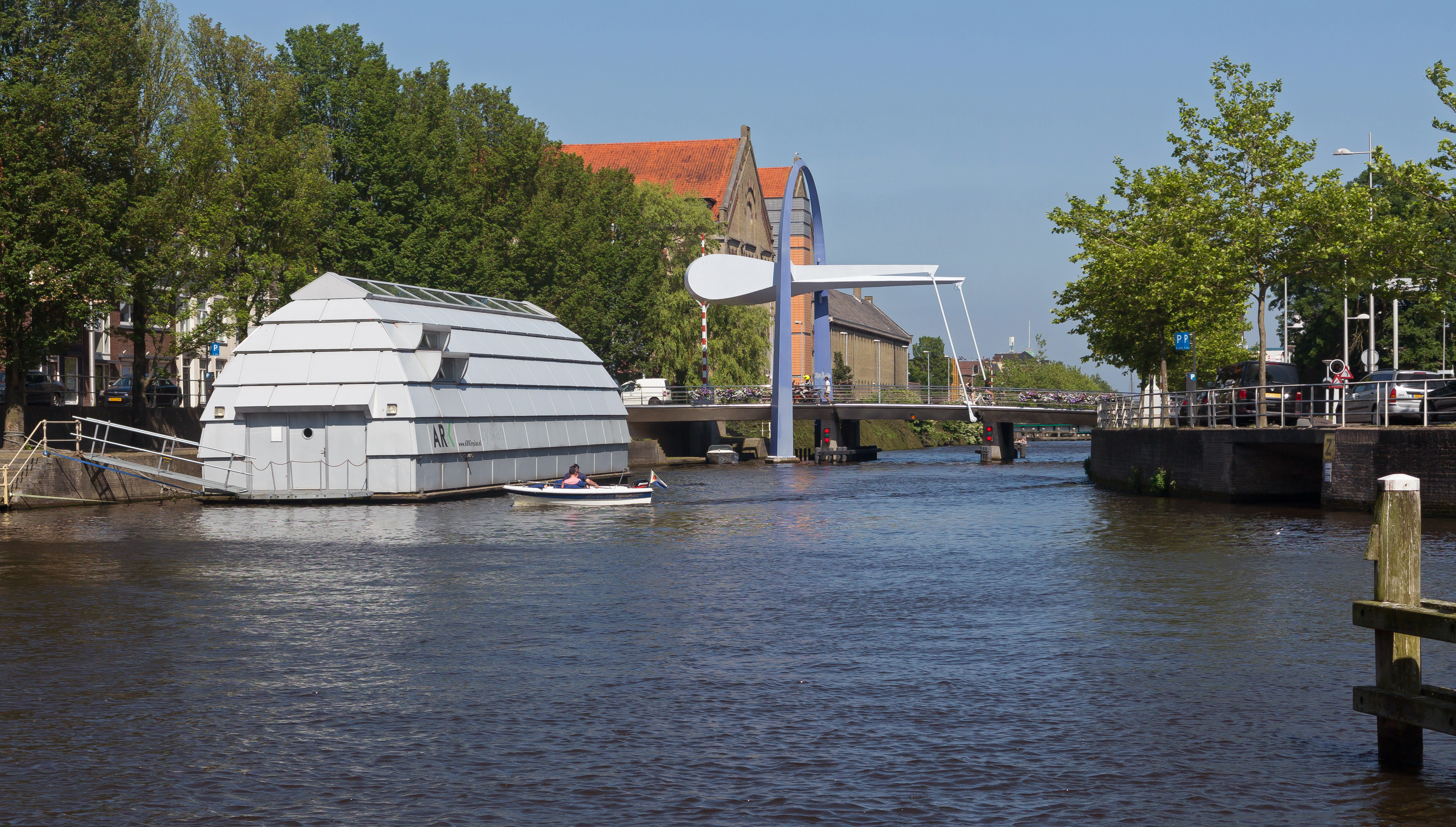 Leeuwarden, drawing bridge and house boat